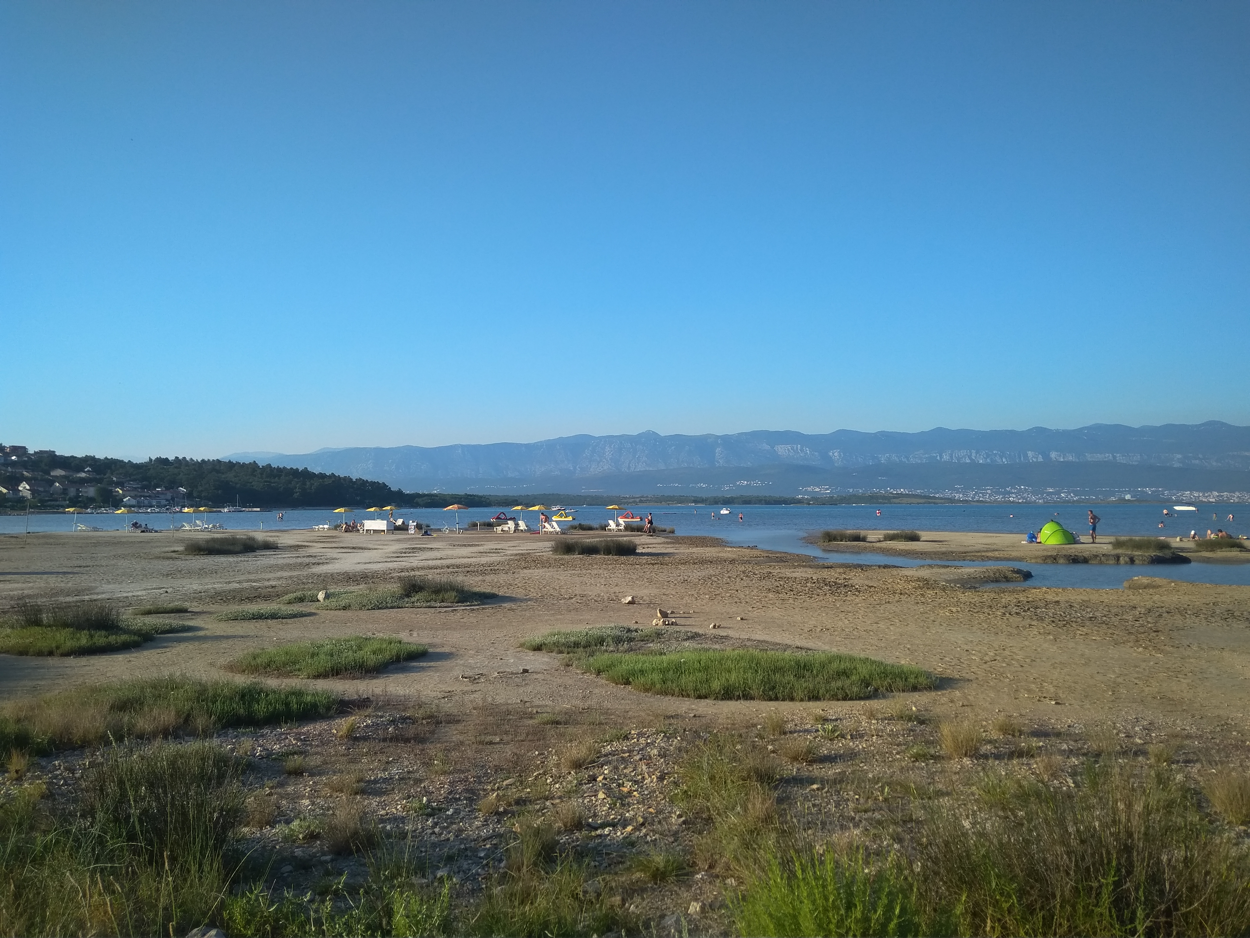 one of the most popular sand beach with healthy mud on island Krk